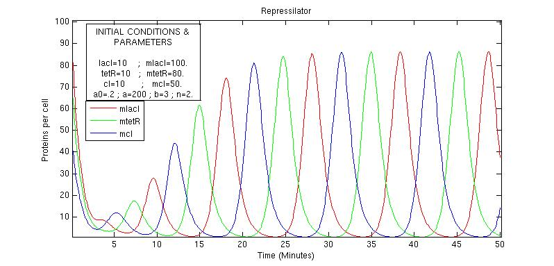 Continuous simulation of the oscillatory behaviour for the repressilator.